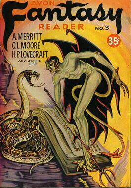 Cover of the fantasy fiction magazine Avon Fantasy Reader no. 3 (1947).